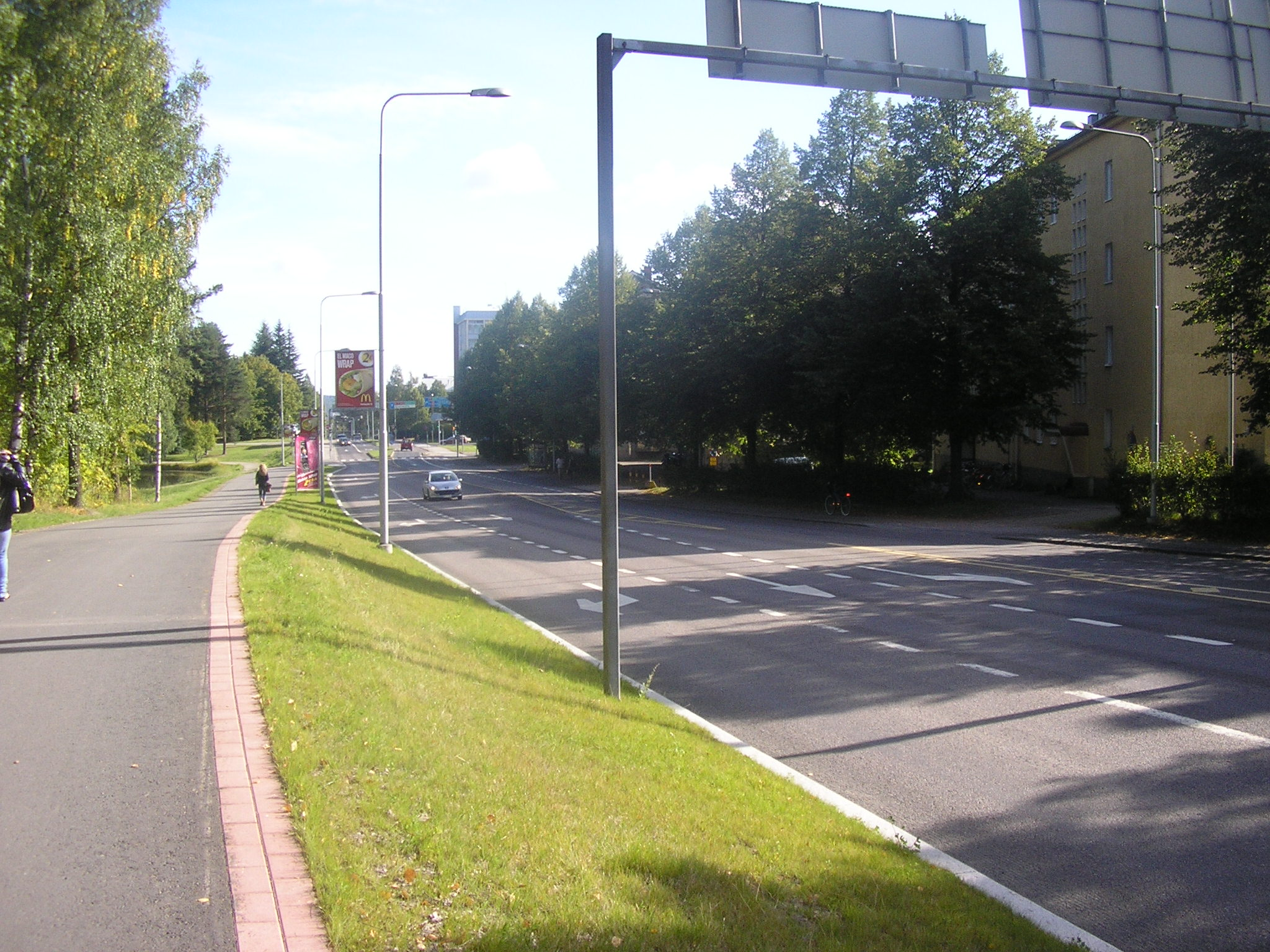 Connecting road 6016 (Keskussairaalantie) in Jyväskylä, Finland